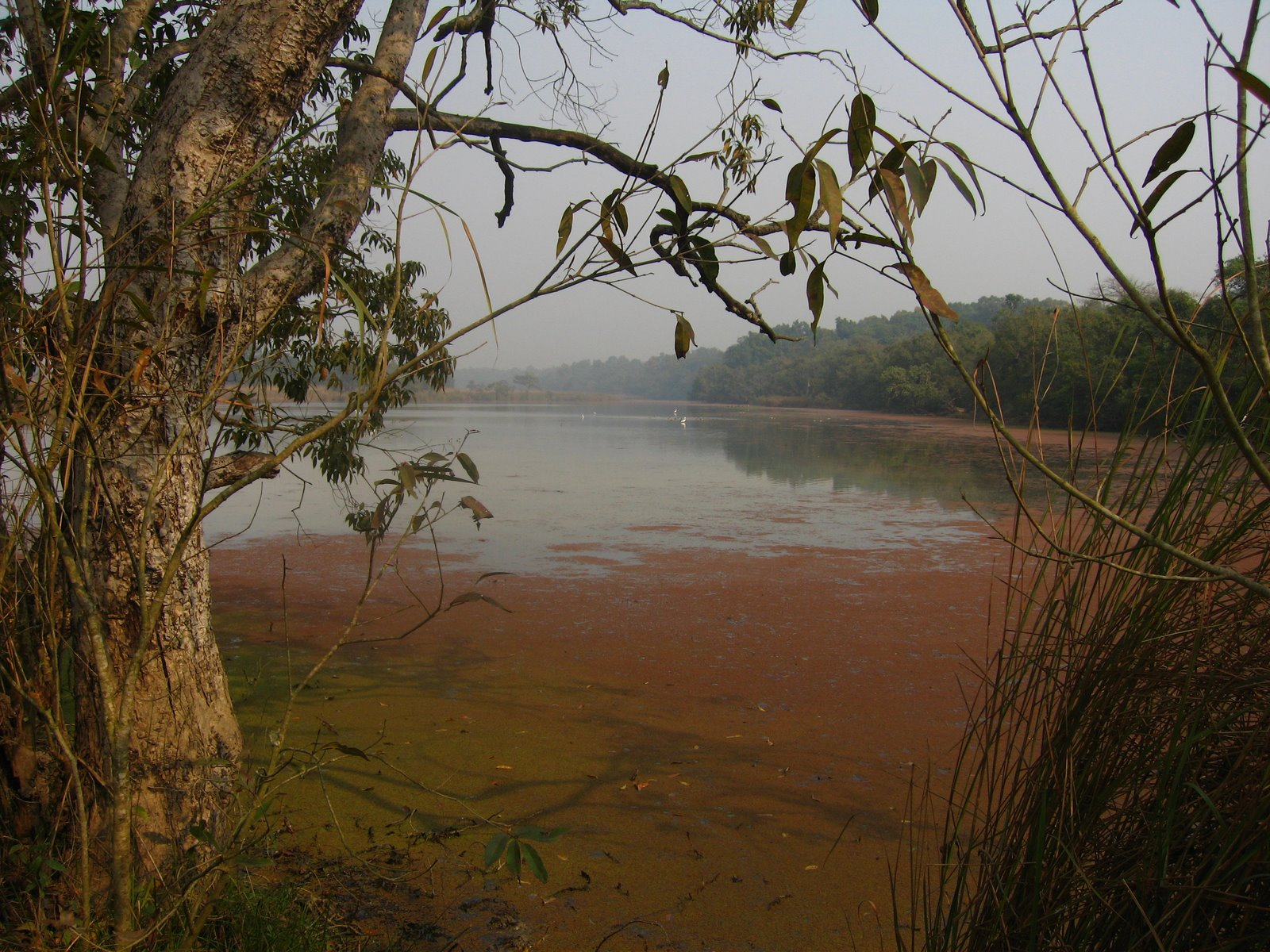 River Side